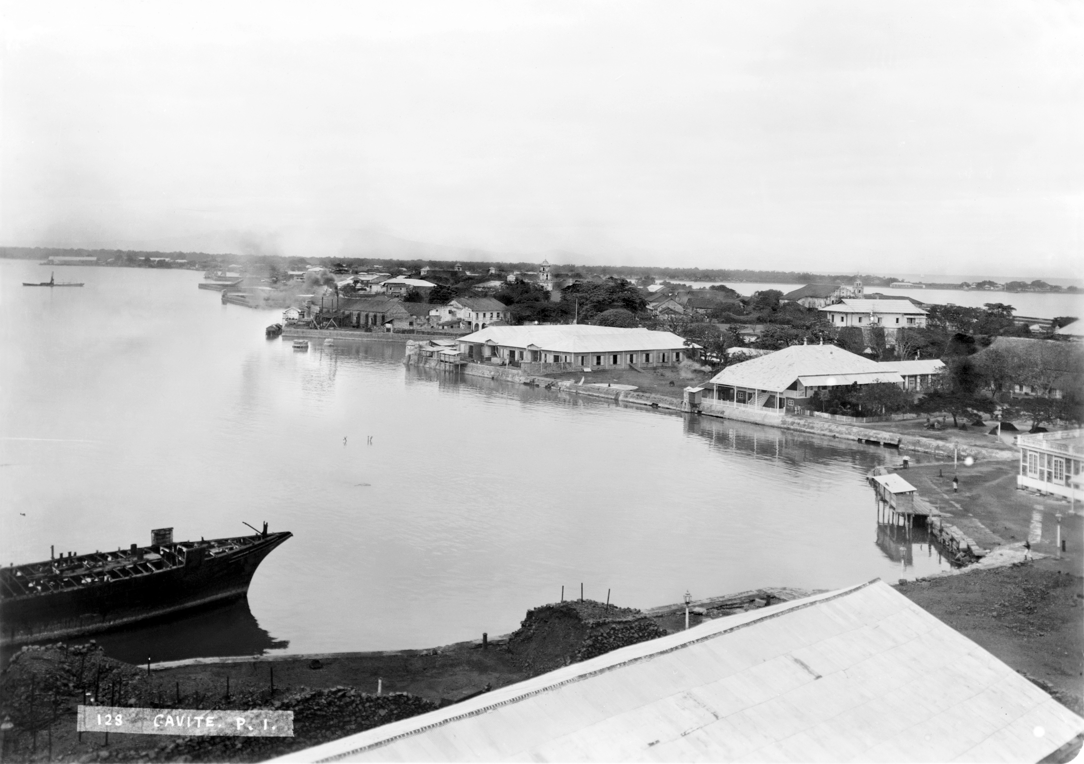 The skyline of Cavite City in the Philippines probably taken from the mast of a ship docked in the Navy Yard in 1899.